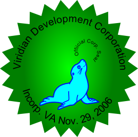 An example of a corporate "seal" where the word "seal" is also used as a bit of a pun by having the seal show an image of a seal on it.